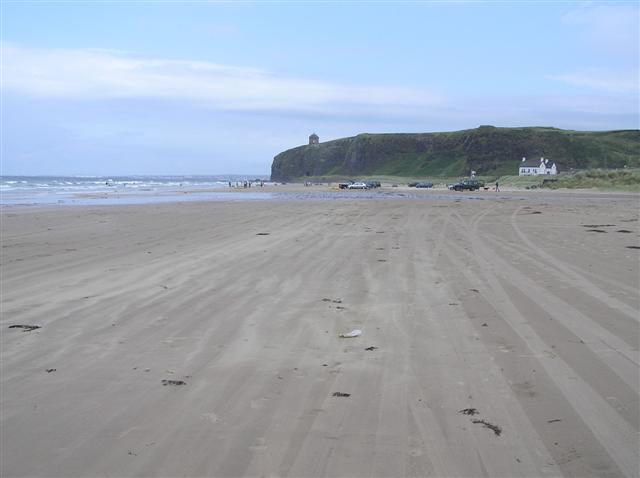 Downhill Strand, County Londonderry, Northern Ireland. Looking south-east